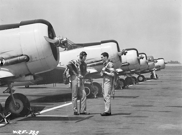 Title / Titre : Instructor and student with North American Harvard II aircraft of No.2 Service Flying Training School (S.F.T.S.) (Royal Canadian Airforce Schools and Training Units), R.C.A.F., Uplands, Ontario, Canada. July 1941 / Un instructeur de vol et un élève-pilote non identifiés avec l'aéronef North American Harvard II de la 2e École d'entraînement au vol, ARC. Creator(s) / Créateur(s) : Nicholas Morant Date(s) : July, 1941 / juillet 1941 Reference No. / Numéro de référence : MIKAN 3521068 Location / Lieu : Uplands, Ontario, Canada Credit / Mention de source : Nicholas Morant. Canada. Department of National Defence. Library and Archives Canada, PA-190248 / Nicholas Morant. Canada. Ministère de la défense nationale. Bibliothèque et Archives Canada, PA-190248